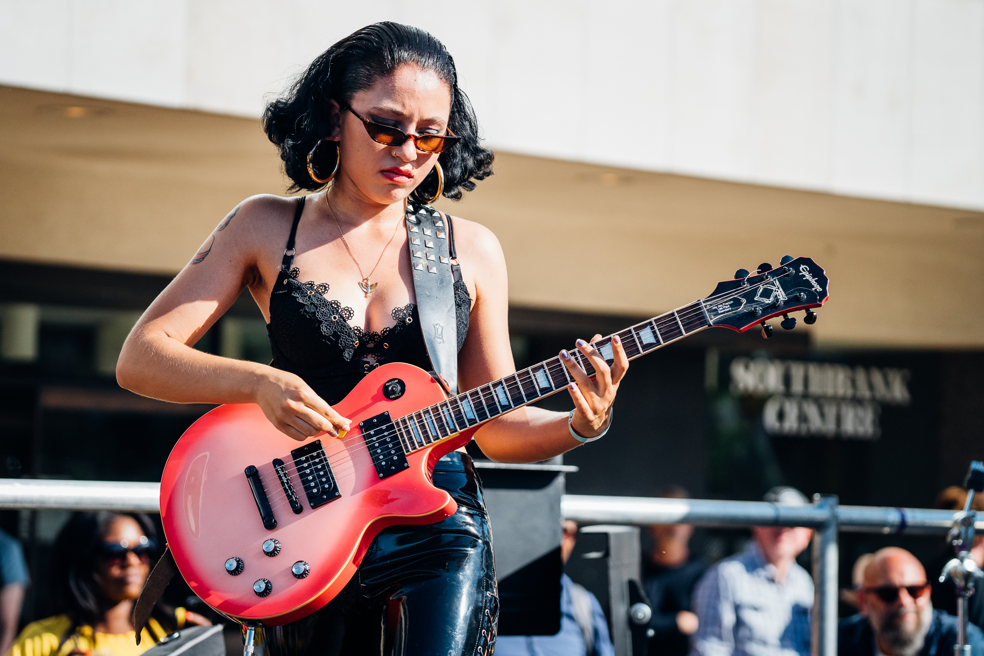 Meltdown Festival: Skinny Girl Diet